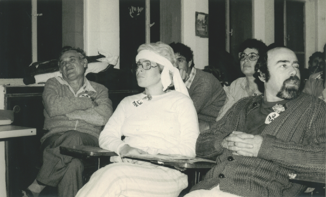 A Communities Evening held by Leadership Course, which was instructed by Acha[1] during Fall 1982 to Summer 1983 at the evening school on Mozes street, Tel Aviv. Afterwards, Noah Mozes street was renamed to Shmuel Mikonis street. From left to right: Chaim Apter, an Acha employee and the course coordinator; Ilana Saban, a course student who became a member of the Acha Central Committee then; Shmuel Goldstein, the Course Instructor. Behind Shmuel sat Dalia Hopper (with glasses), a hearing social worker, who was the Director of Social Services in Acha afterwards. Left to Dalia, sat the manager of the evening school.